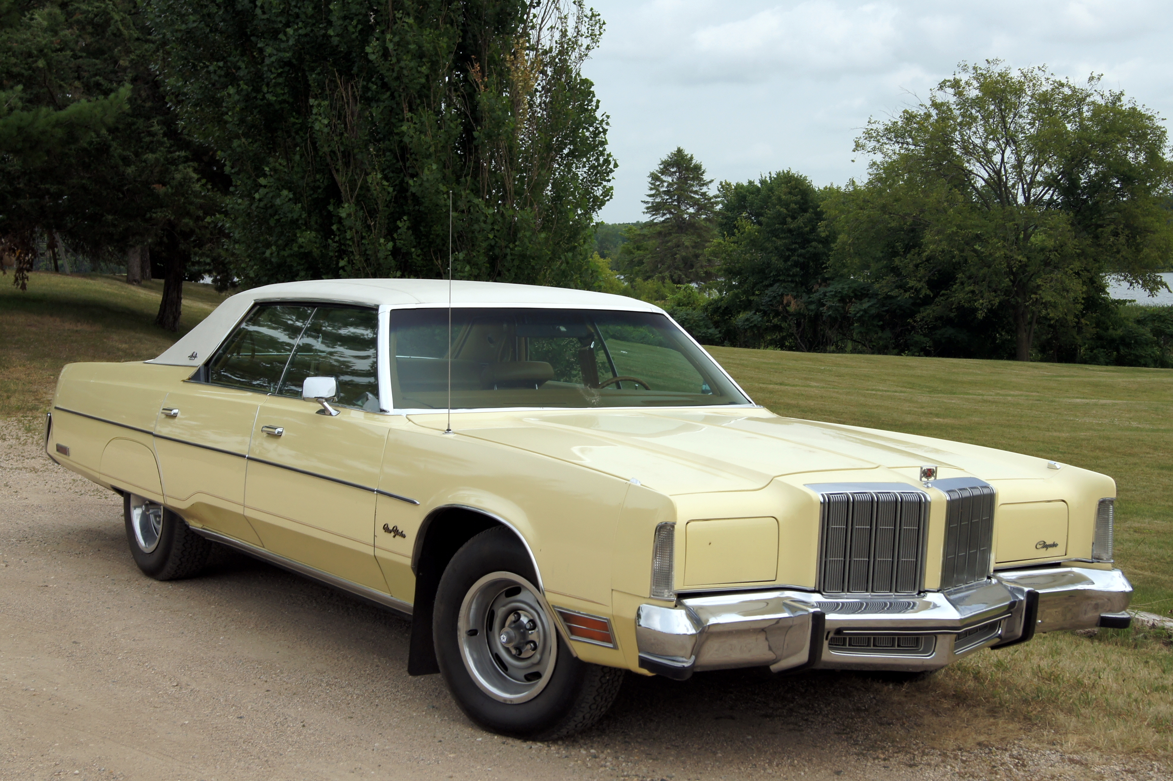 Willmar Car Club Picnic July 19, 1014 Rodvik Park New London Minnesota Cliff reserved an excellent location for the Club Picnic. There was great weather, food and company. Photos of other Willmar Car Club events